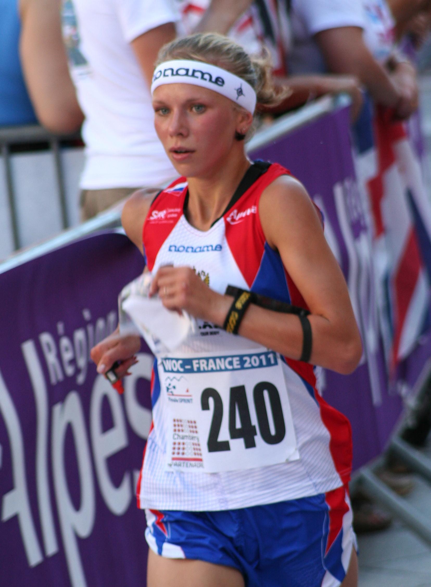 Anastasia Tikhonova at WOC 2011 Sprint final Chambery — France Photos by Niels-Peter Foppen —